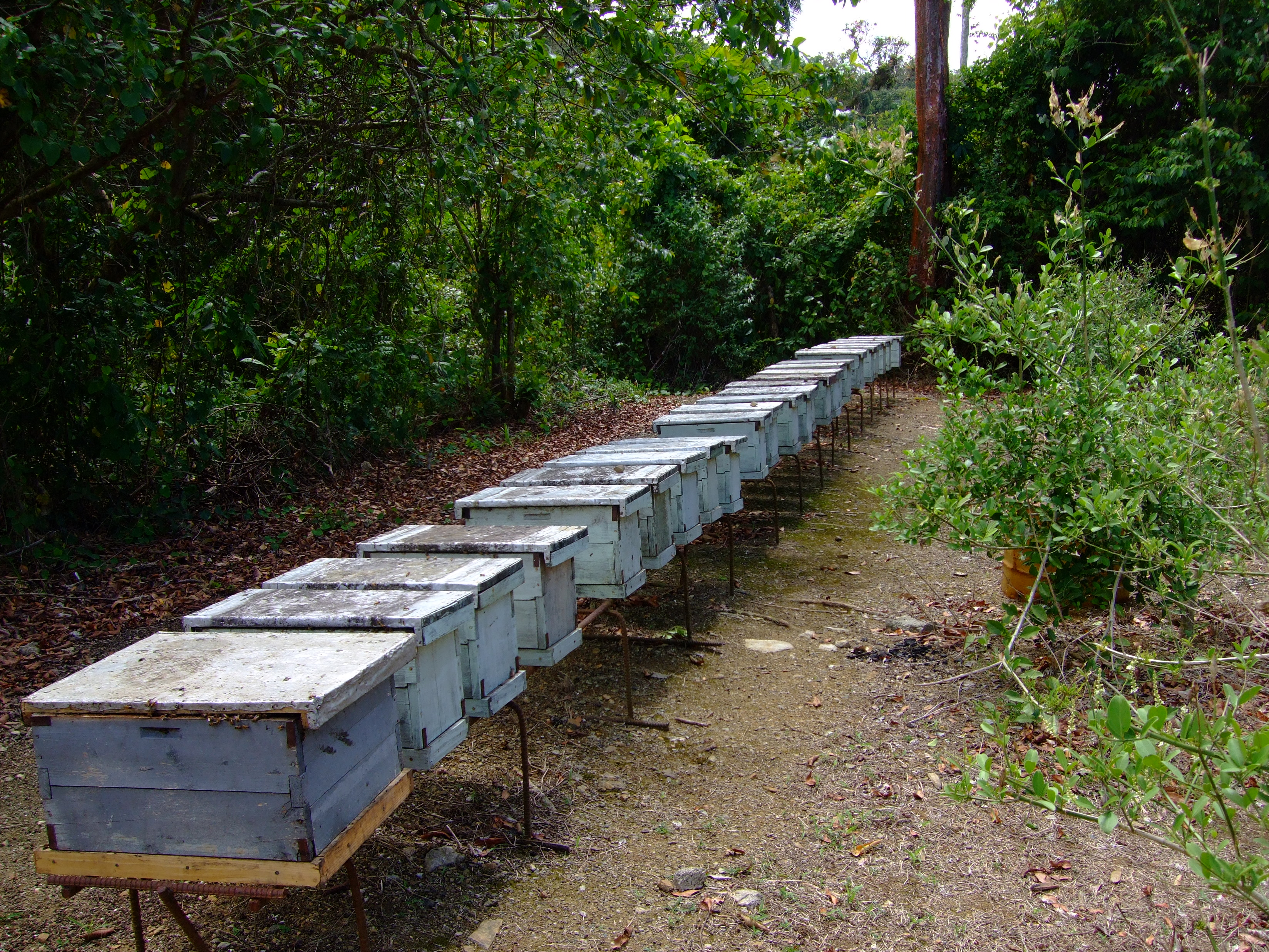 Beehives in the Biosphere Reserve of Las Terrazas, Cuba.